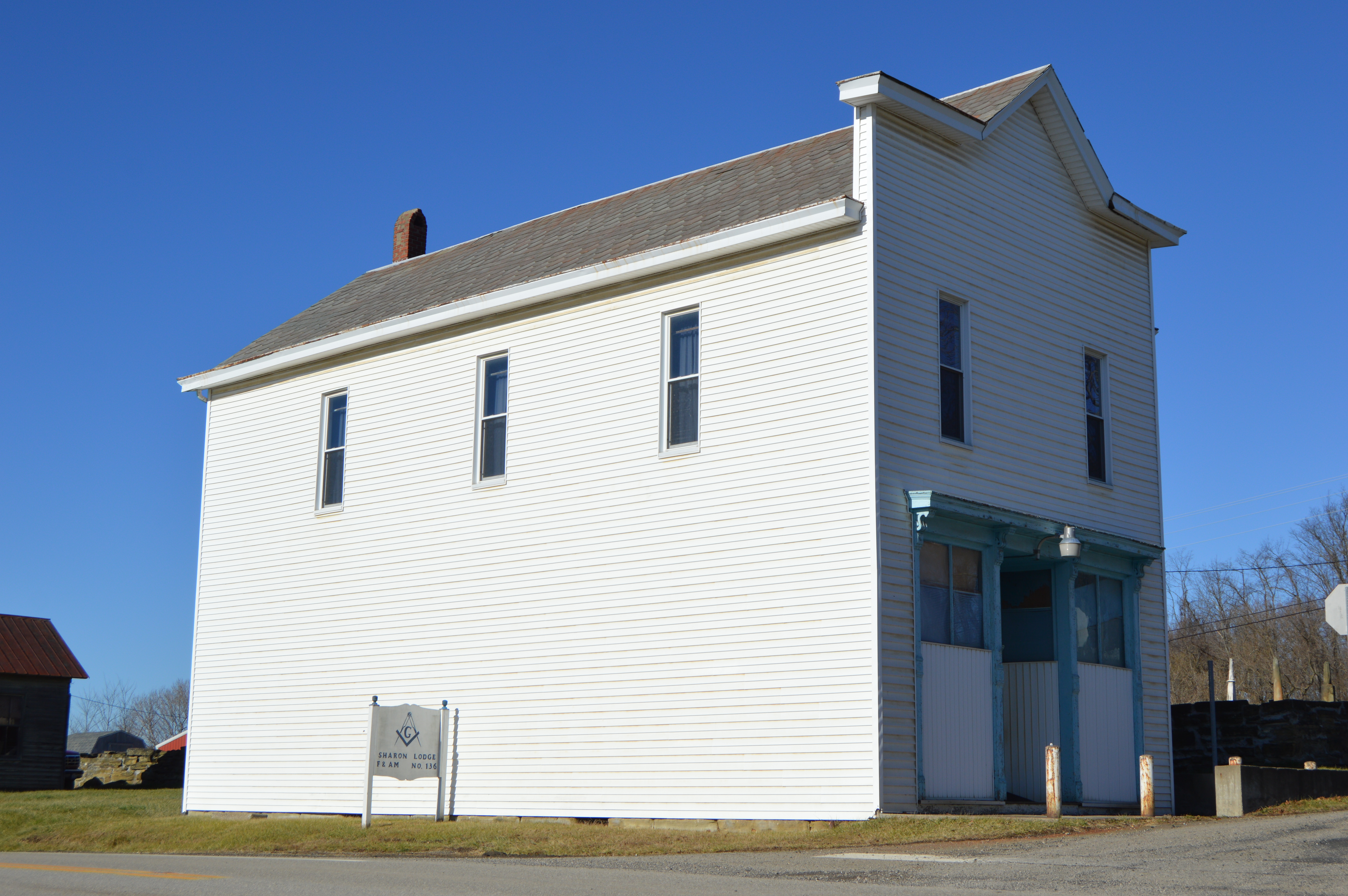 Front and southern side of the Sharon Lodge F&AM #136 hall, located on the northwestern corner of the intersection of State Route 78 and Boyd Road at Sharon in Sharon Township, Noble County, Ohio, United States.